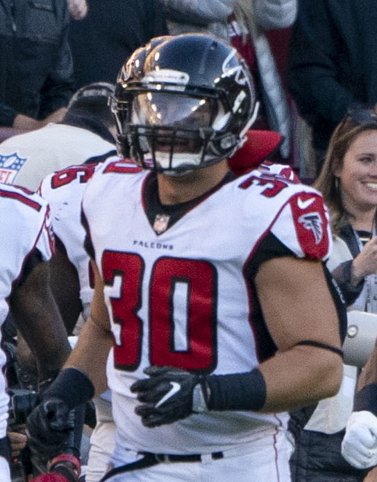 Members of the Atlanta Falcons on the field at FedExField in November of 2018